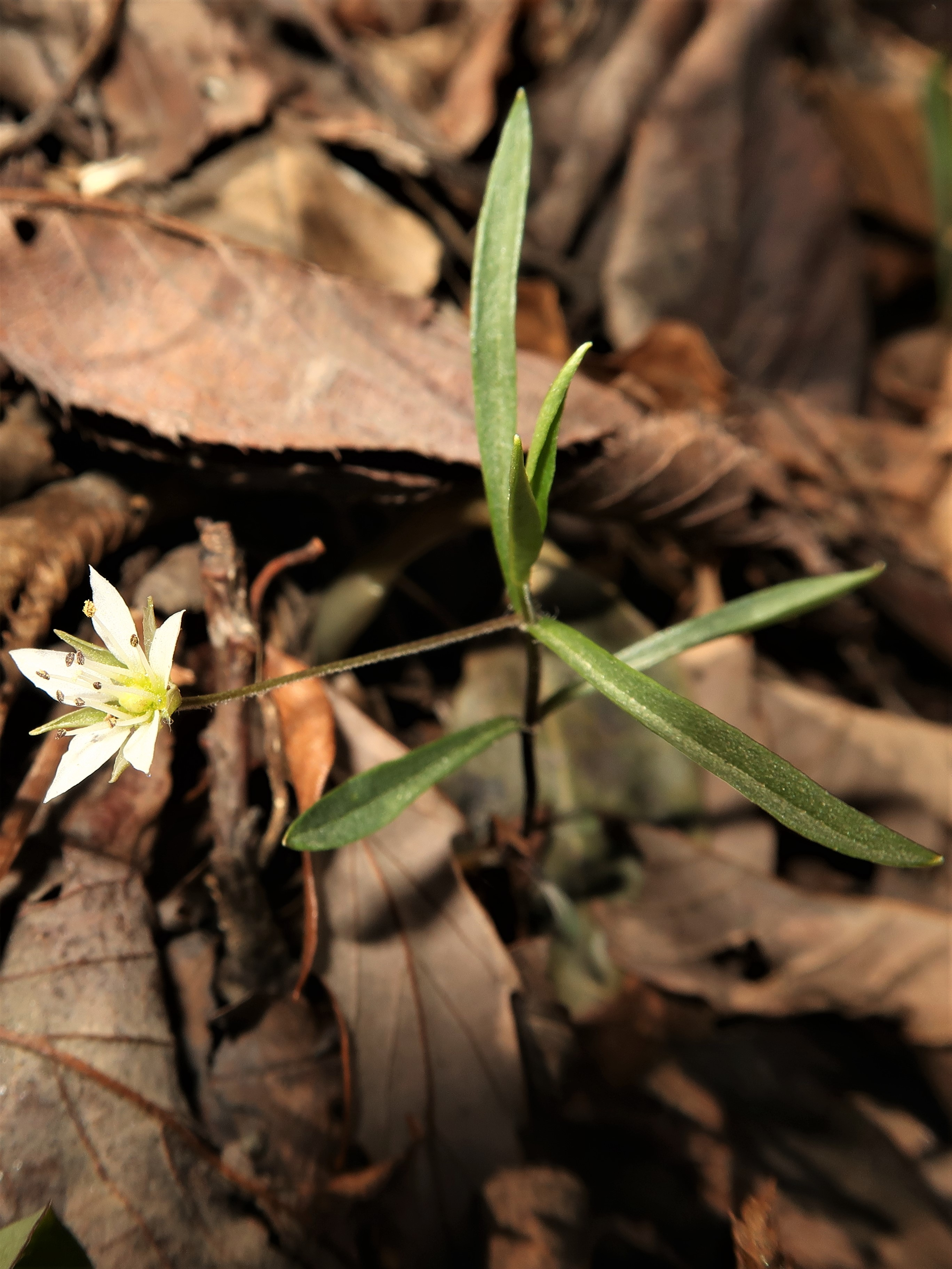 Pseudostellaria heterantha var. linearifolia, Mount Tsukuba-san, Ibaraki pref., Japan